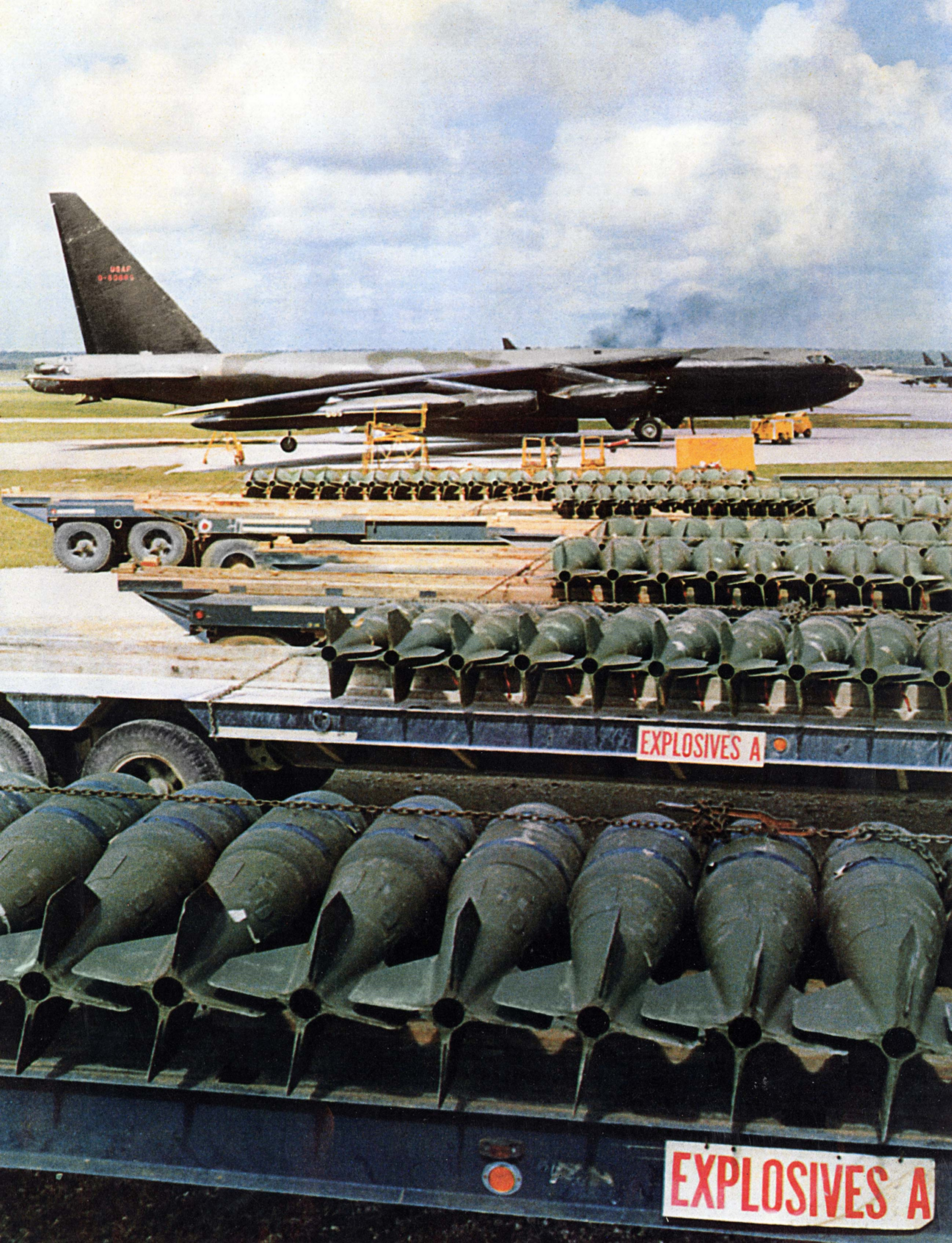 M117 750 lb (340 kg) bombs in front of U.S. Air Force B-52D Stratofortress bombers at Andersen Air Force Base, Guam (USA), during the Vietnam war.